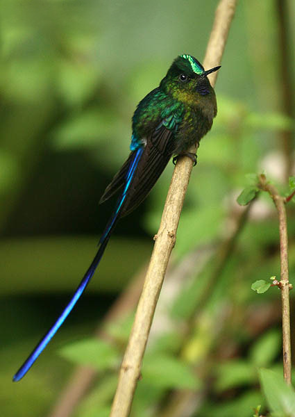 Violet-tailed Sylph (Aglaiocercus coelestis). A male in Tandayapa Bird Lodge, NW Ecuador.